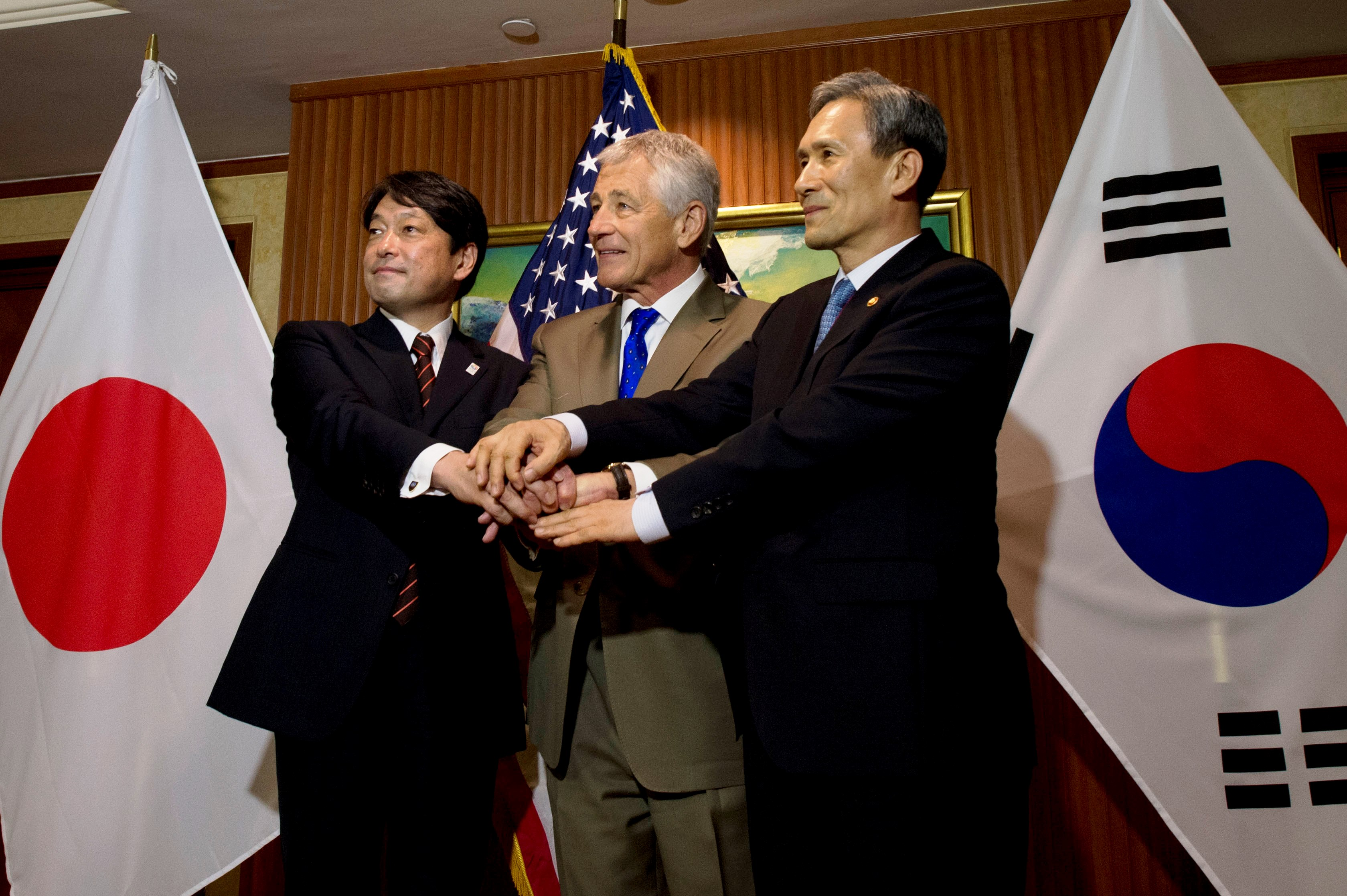 Secretary of Defense Chuck Hagel meets with Japanese Minister of Defense Onodera Itsunori (left) and Korean Minister of National Defense Kim Kwan-jin (right) at the Shangri-La Dialogue in Singapore, June 1, 2013. Hagel met with several different defense ministers to discuss issues of mutual importance and then continue to Brussels for a NATO ministerial.